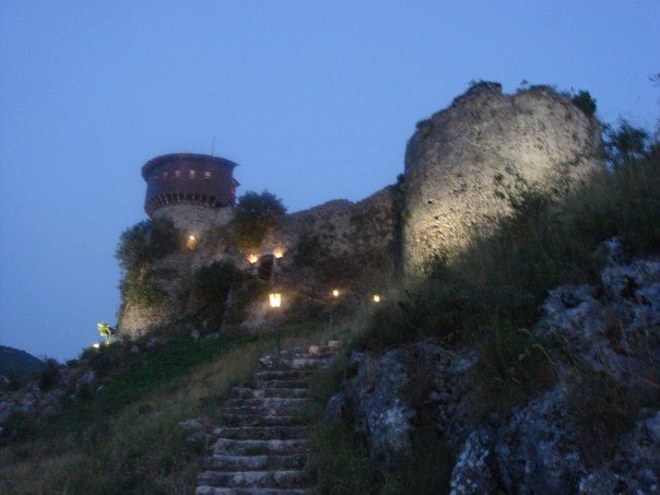 Author: Ilir Kullolli